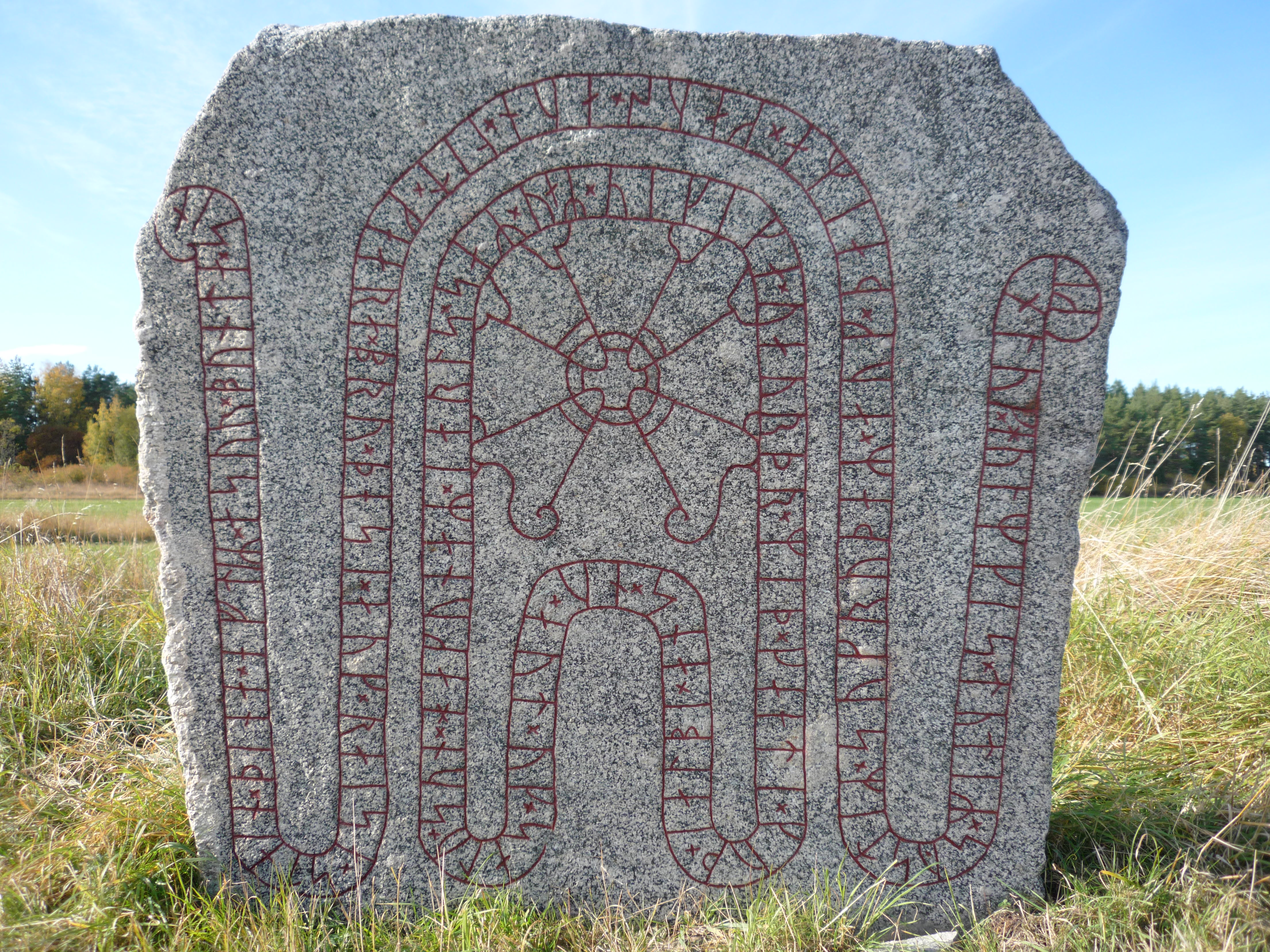 Runic inscriptions of Uppland no. 617, Assusr's stone, near Bro church in Uppland